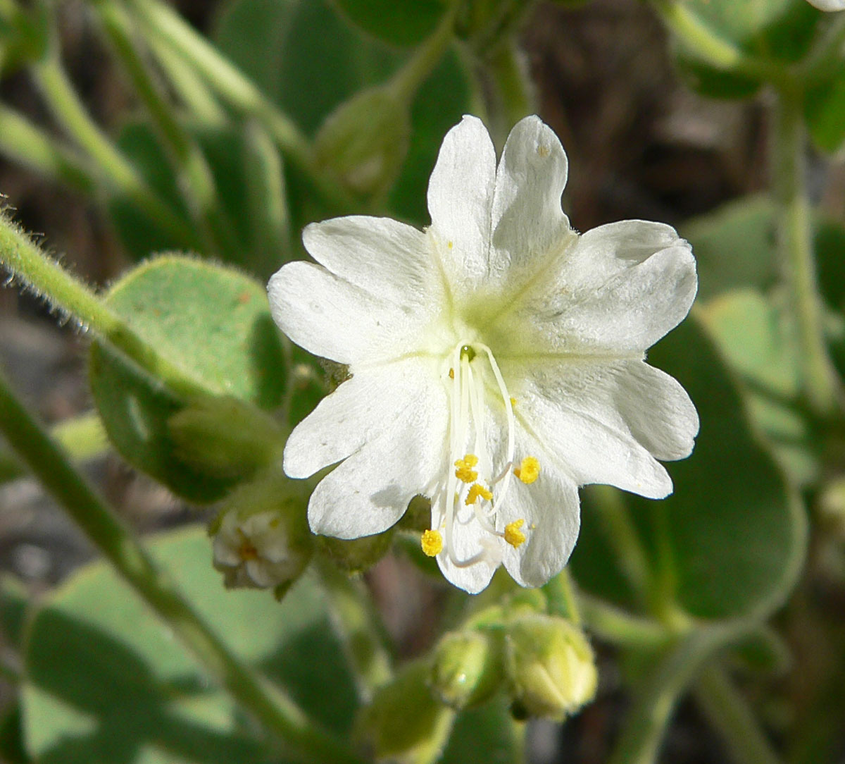 Mirabilis laevis var. villosa in Red Rock Canyon, Nevada